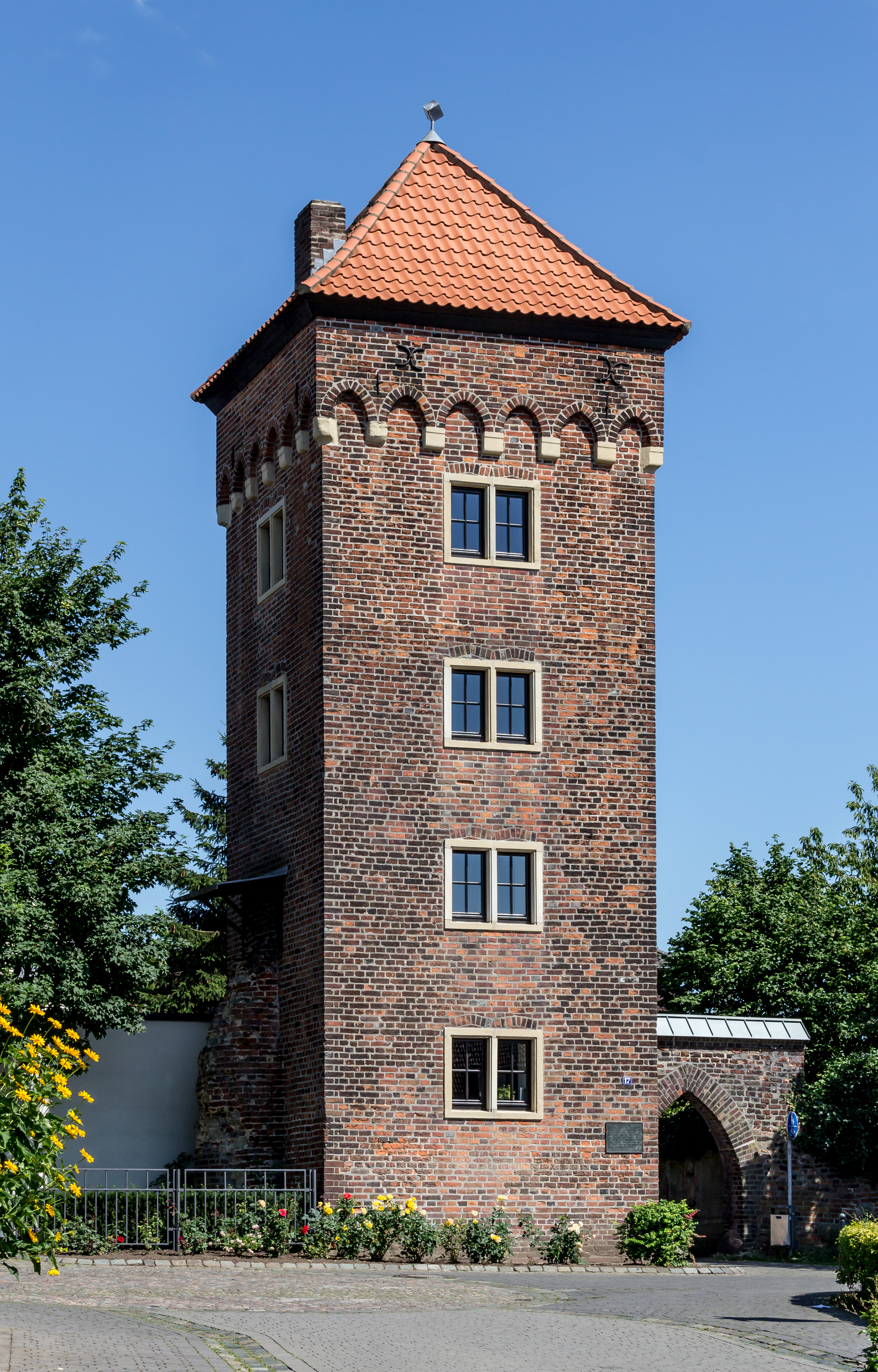 Nonnenturm in Dülmen, North Rhine-Westphalia, Germany; on the left the last part of the town wall, on the right the thoroughfare to the Probst-Dümpelmann-Weg This image shows a heritage building in Germany, located in the North Rhine-Westphalian city Dülmen (no. 18).